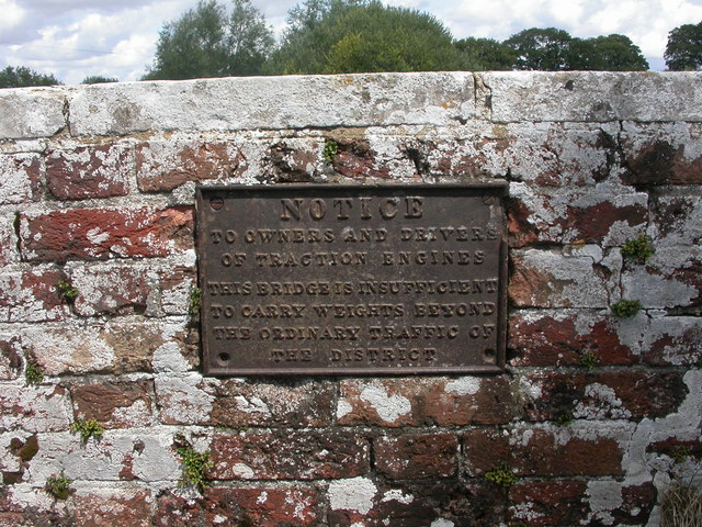 Fitche's Bridge, warning sign Sign on the North parapet of Fitche's Bridge, erected according to the Locomotive Act, 1861.